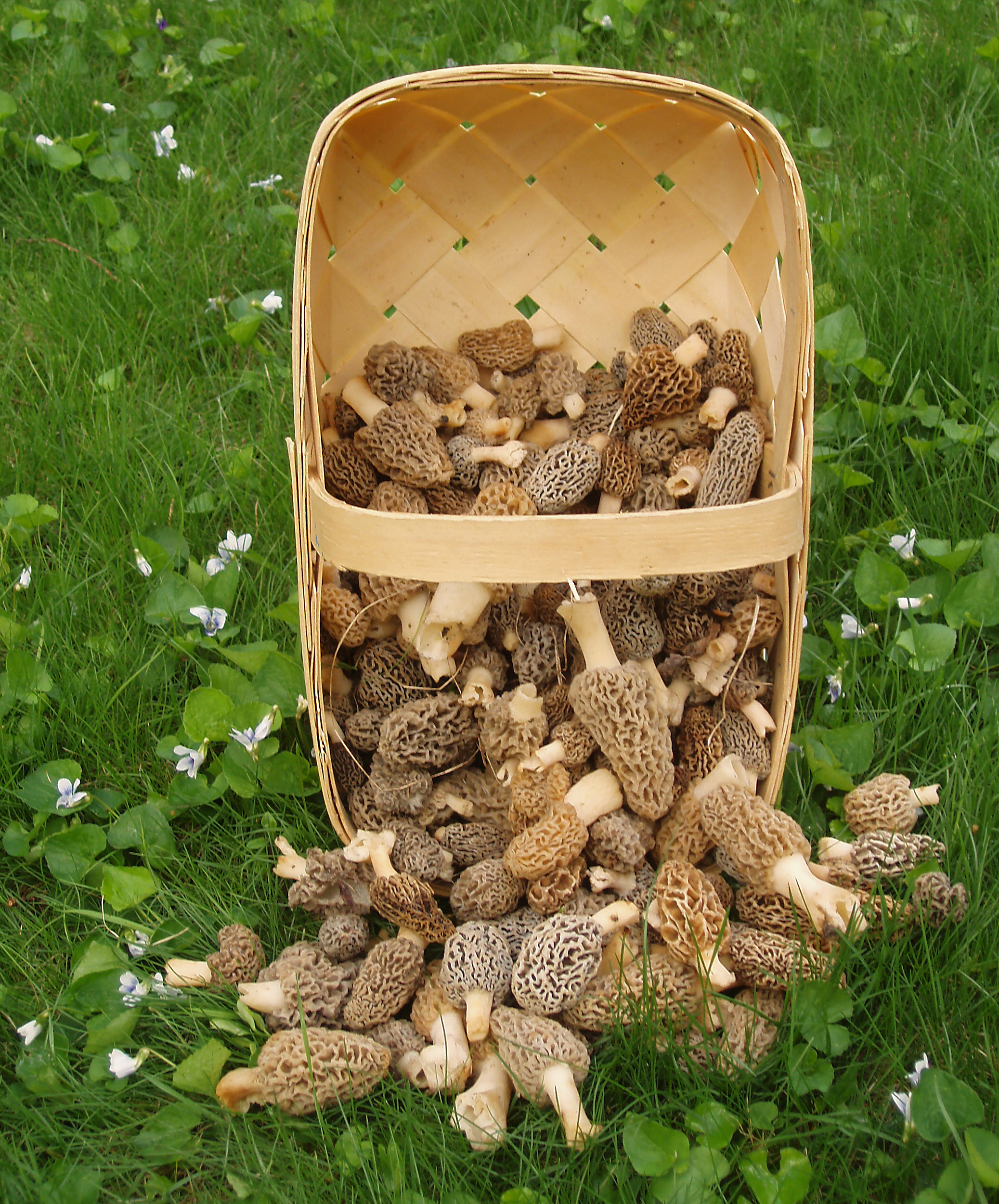 Mushroom Magic Meal